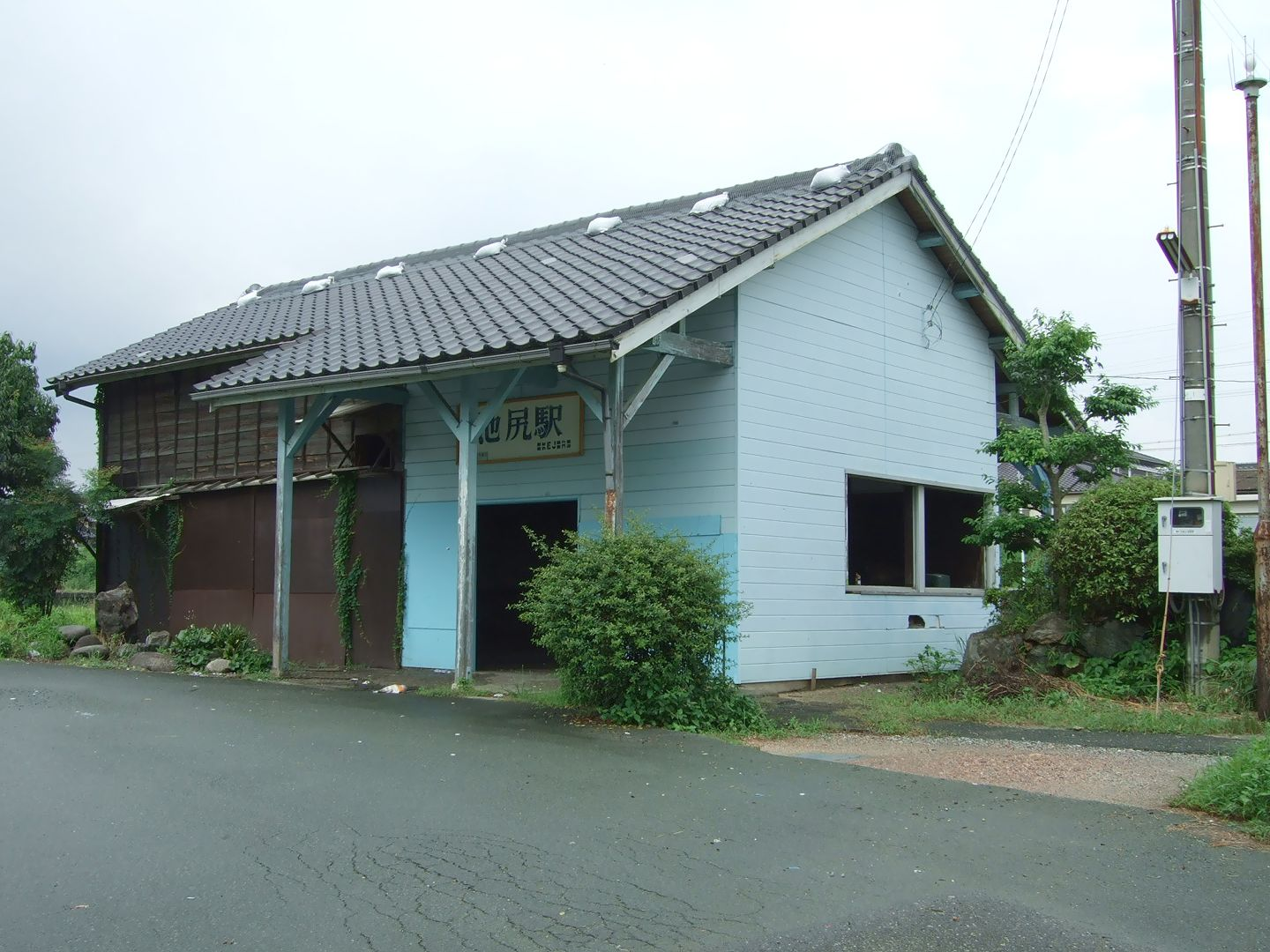 Ikejiri Station, Hitahikosan Line, Kyushu Railway Company.